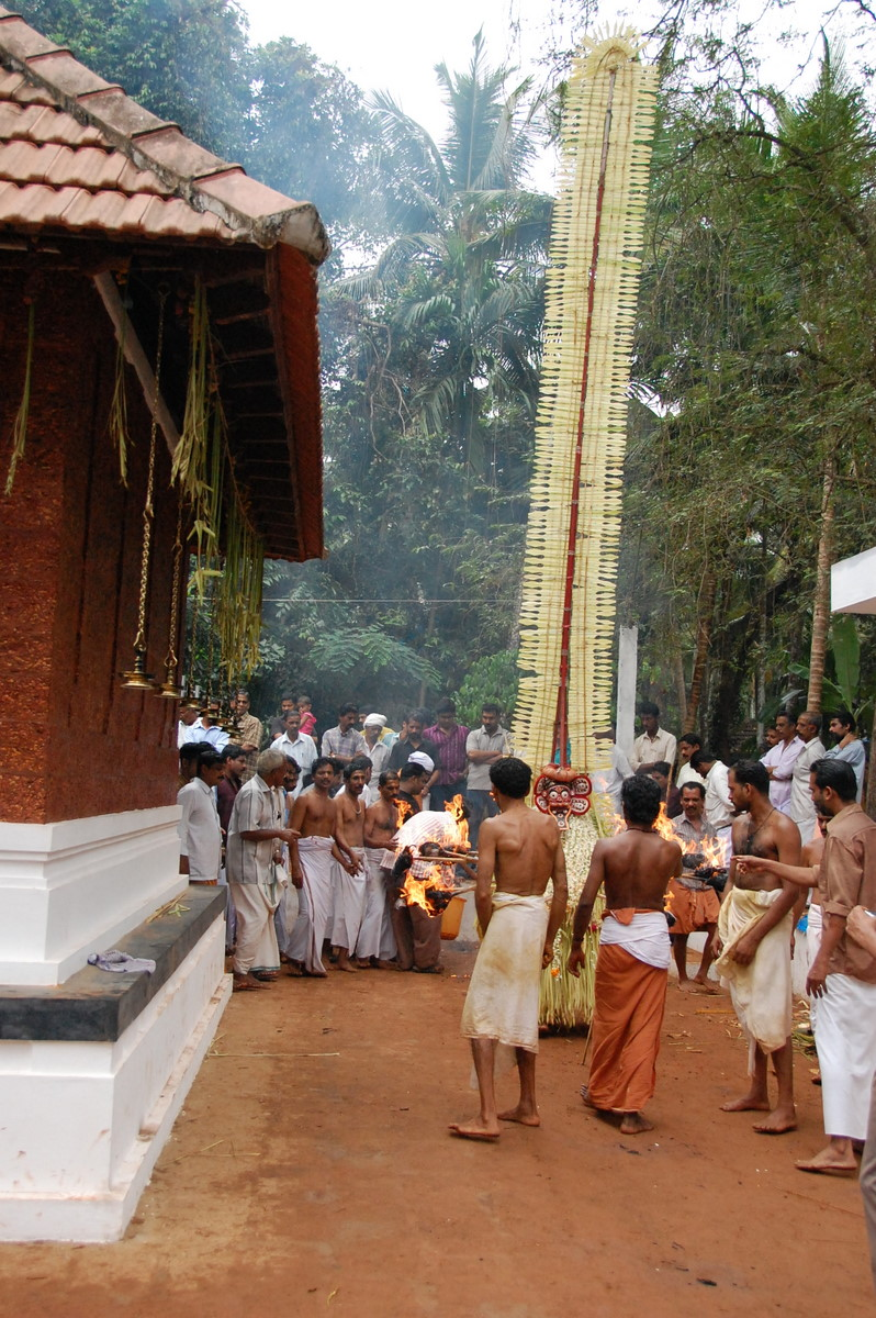 One of the god characters of the thirra, held in kerala